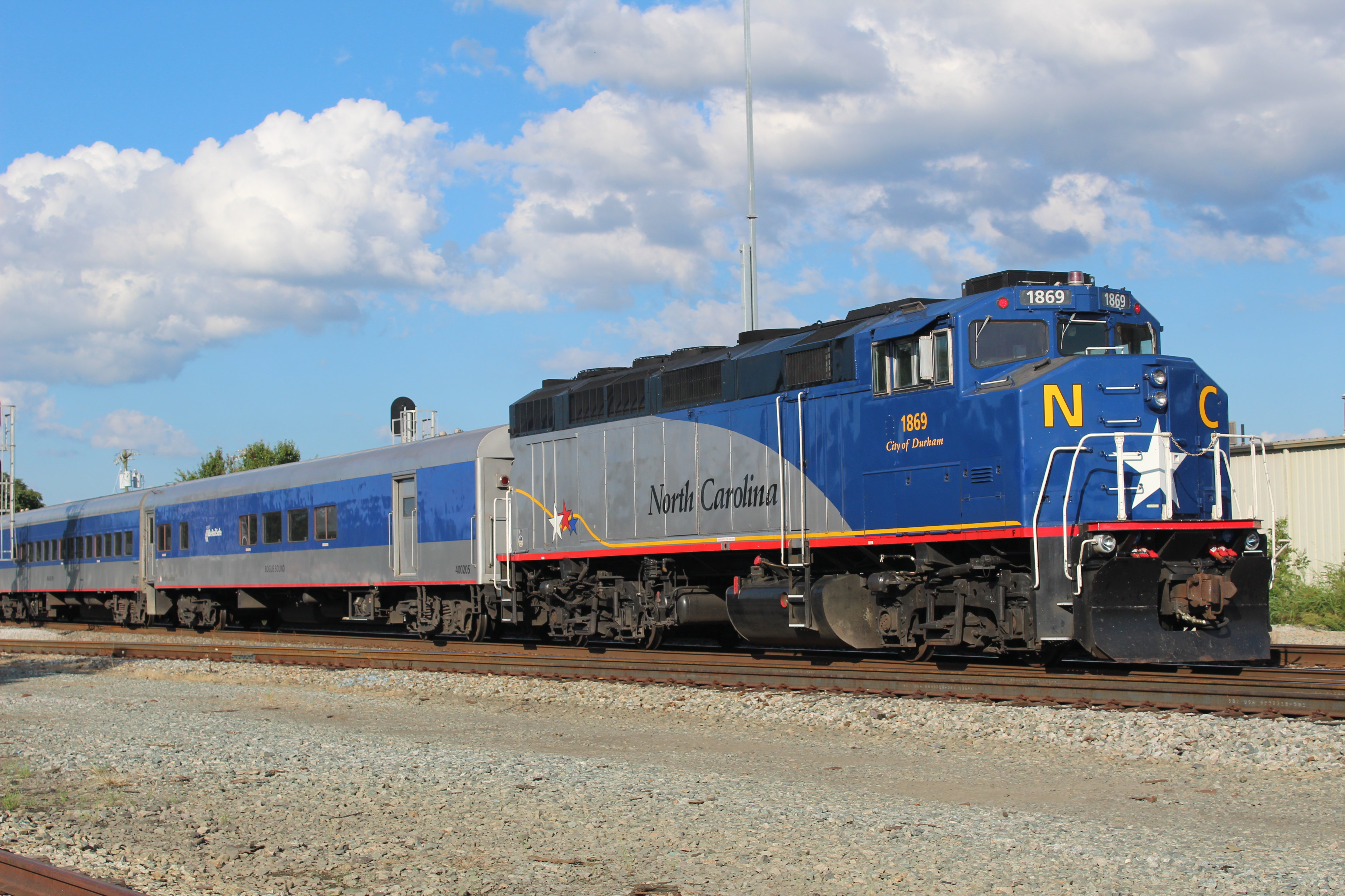 NCDOT engine City of High Point leads the Piedmont at Salisbury in August 2016